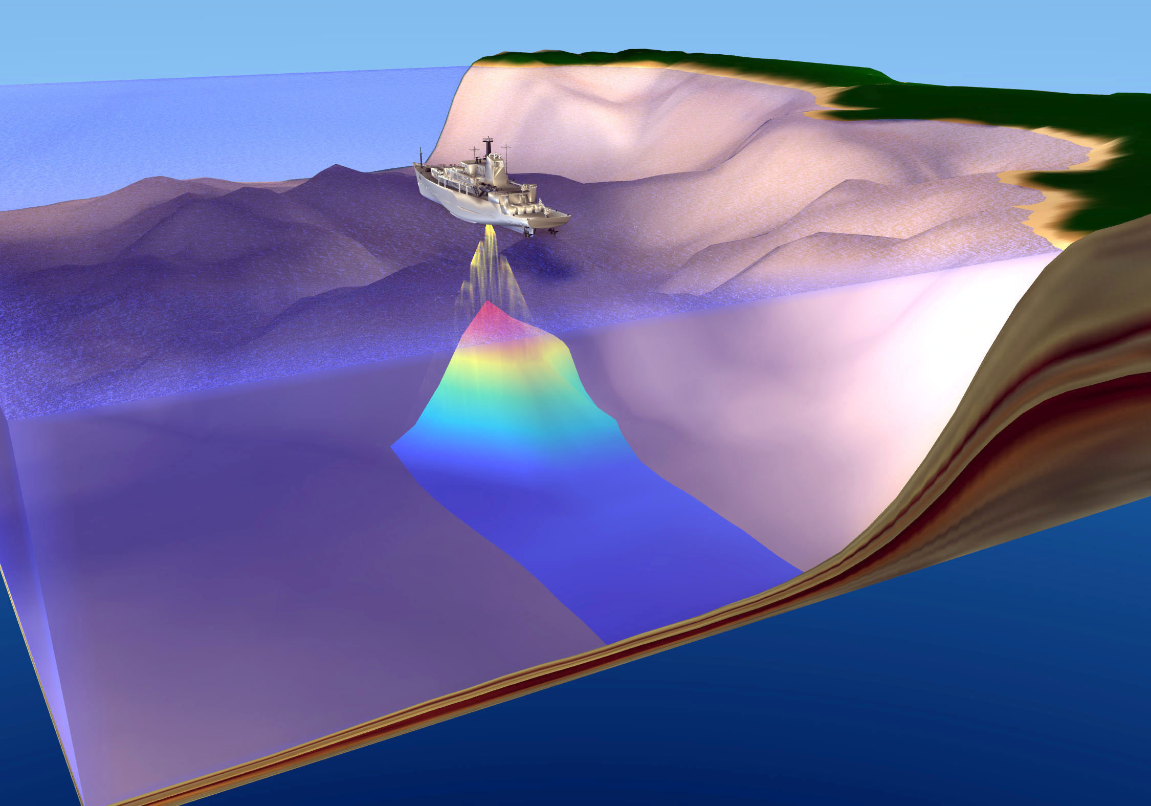 010406-N-0000X-002 File Photo -- An illustration depicting the underwater mapping capability of USNS Bowditch (T-AGS 62) and other ships of her class. T-AGS 60 Class Oceanographic Survey ships conduct sampling and data collection of surface, midwater and ocean floor parameters; launch and recovery of hydrographic survey launches (HSLs); the launching , recovering and towing of scientific packages (both tethered and autonomous), including the handling, monitoring and servicing of remotely operated vehicles (ROVs); shipboard oceanogaphic data processing and sample analysis; and precise navigation, trackline manoeuvering and station keeping to support deep-ocean and coastal surveys. There are 5 ships in this class. U.S. Navy Graphic Illustration (RELEASED)